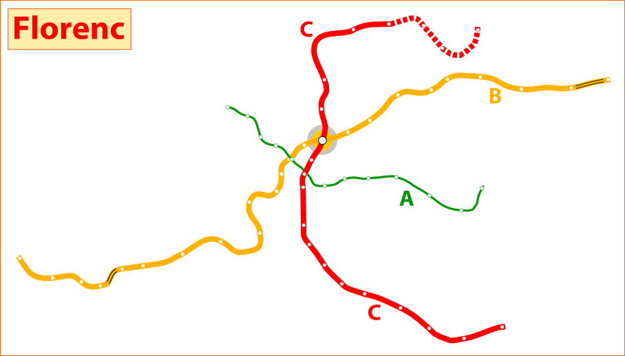 Florenc - Prague metro station.